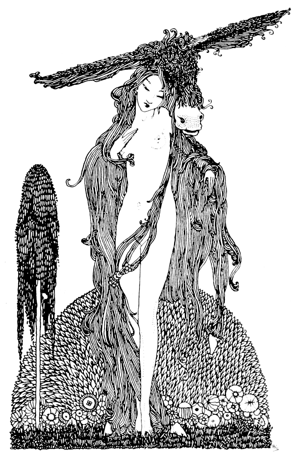 Illustration in The fairy tales of Charles Perrault Perrault, Charles, 1628-1703; Clarke, Harry, 1889-1931, illustrator. London: Harrap (1922)